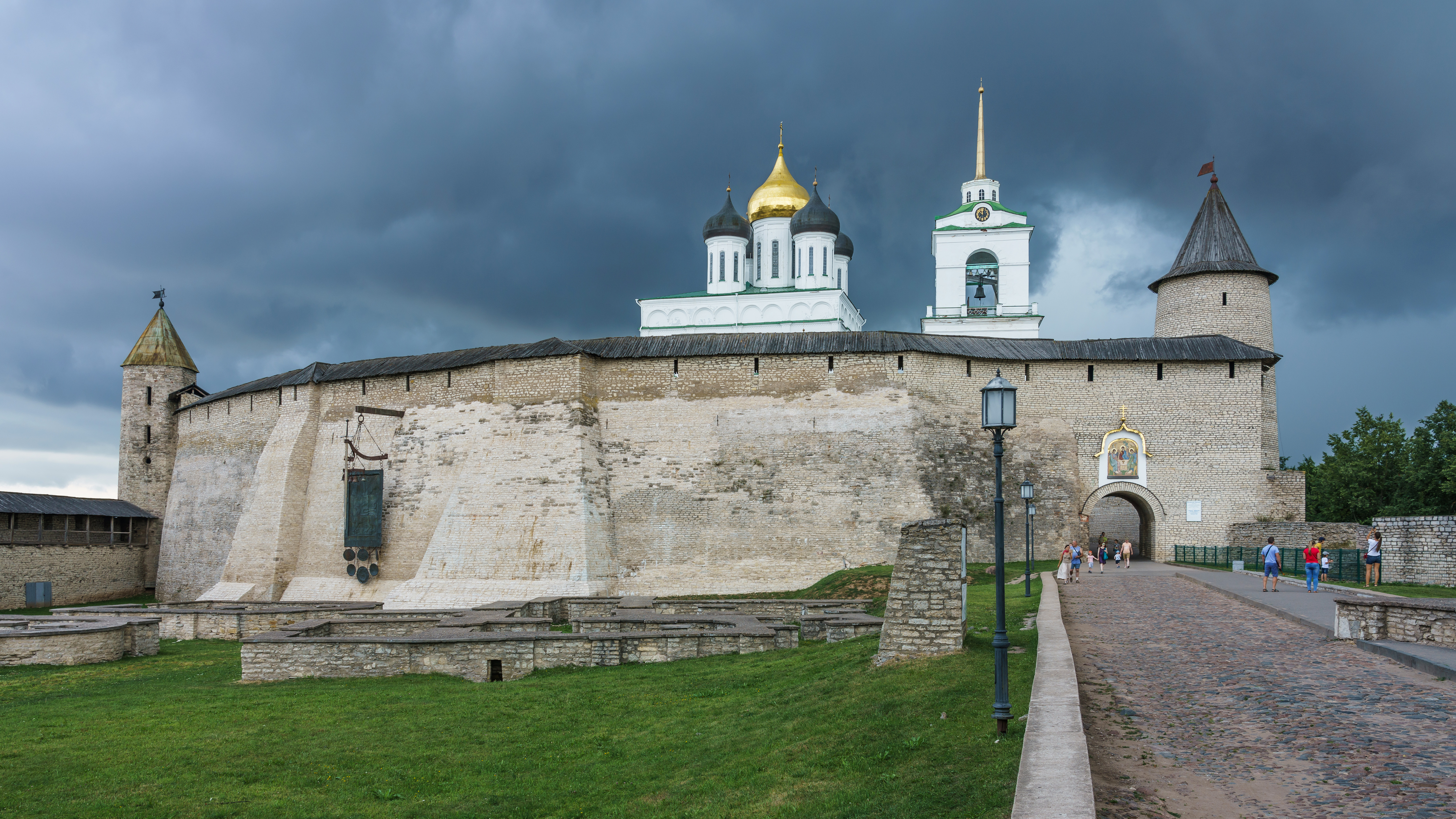 Remains of Daumantas Town and the wall of the Kremlin in Pskov, Russia